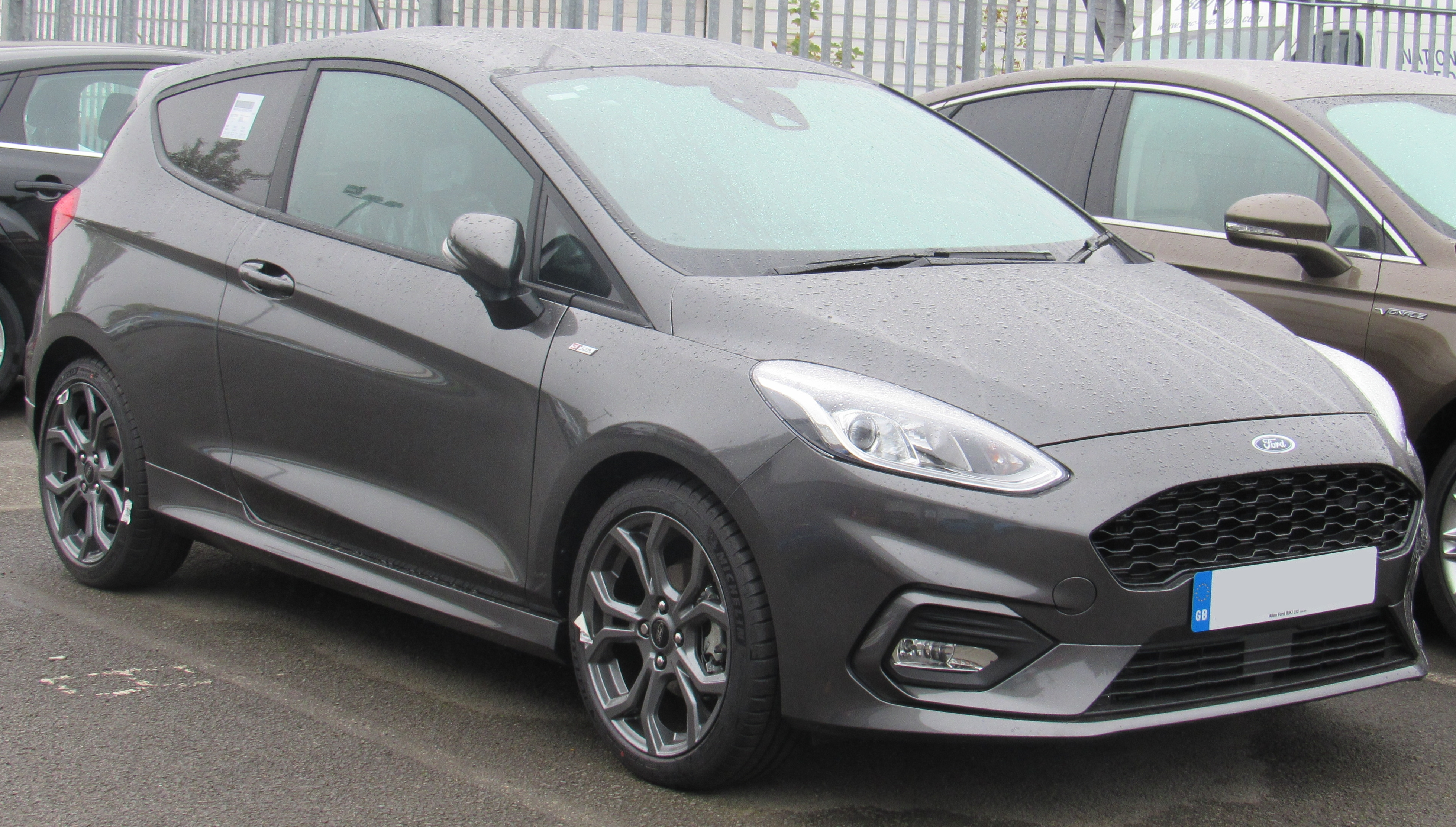 2017 Ford Fiesta ST-Line Turbo 1.0 Taken at Allen Ford Warwick, Leamington Spa